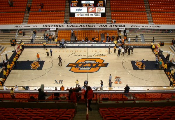 Inside Gallagher-Iba Arena on January 22, en:2005 after the Oklahoma State University Cowboys defeated the Baylor University Bears, 82-53. This was the first game on the newly-named Eddie Sutton Court. Image created by Ash Lux.